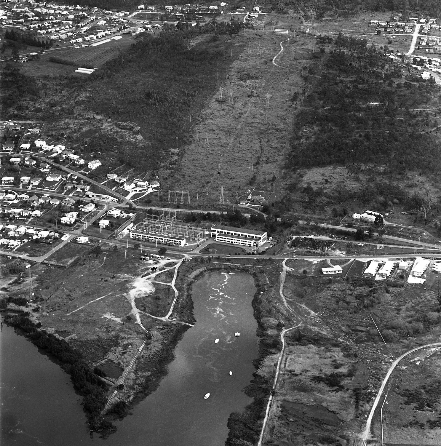 Tasmanian Archive and Heritage Office: AB713/1/12060 Images from the TAHO collection that are part of The Commons have ‘no known copyright restrictions’, which means TAHO is unaware of any current copyright restrictions on these works. This can be because the term of copyright for these works may have expired or that the copyright was held and waived by TAHO. The material may be freely used provided TAHO is acknowledged; however TAHO does not endorse any inappropriate or derogatory use.